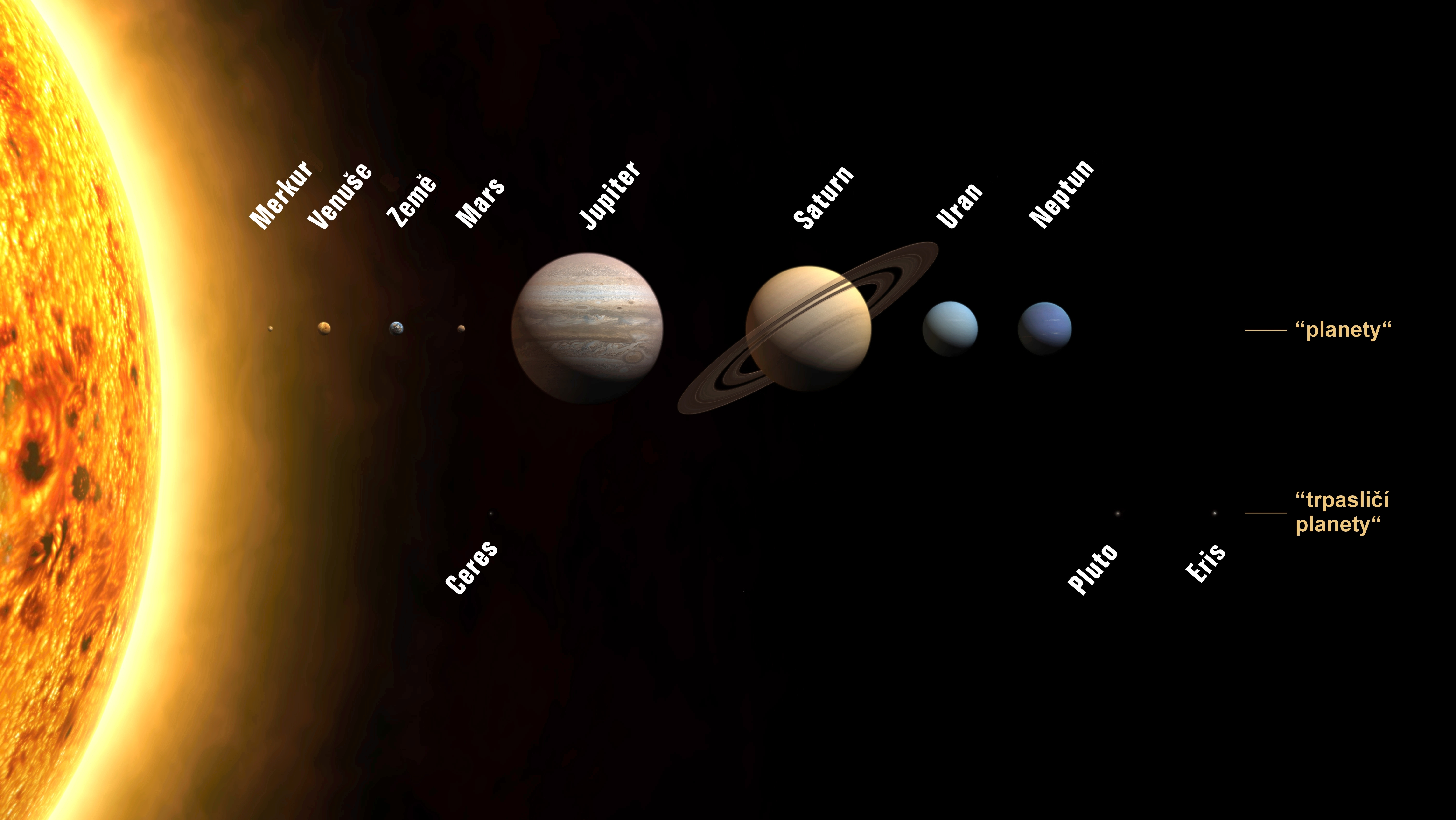 Planets and Dwarf Planets of the solar system in Czech.